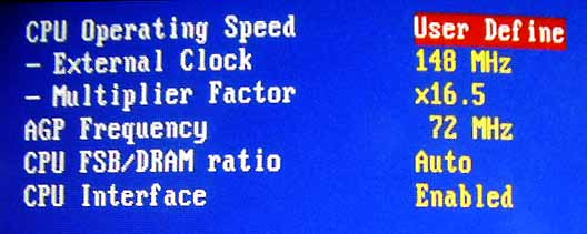 AMD Athlon XP Overclocking BIOS Setup on ABIT NF7-S. This CPU's normal FSB clock frequency is 133MHz and regular clock multiplier factor is x13.5. I am modifying this setting. FSB frequency has increased into 148MHz, and clock multiplyer factor has changed into x16.5. This motherboard is also able to modify very flexible.